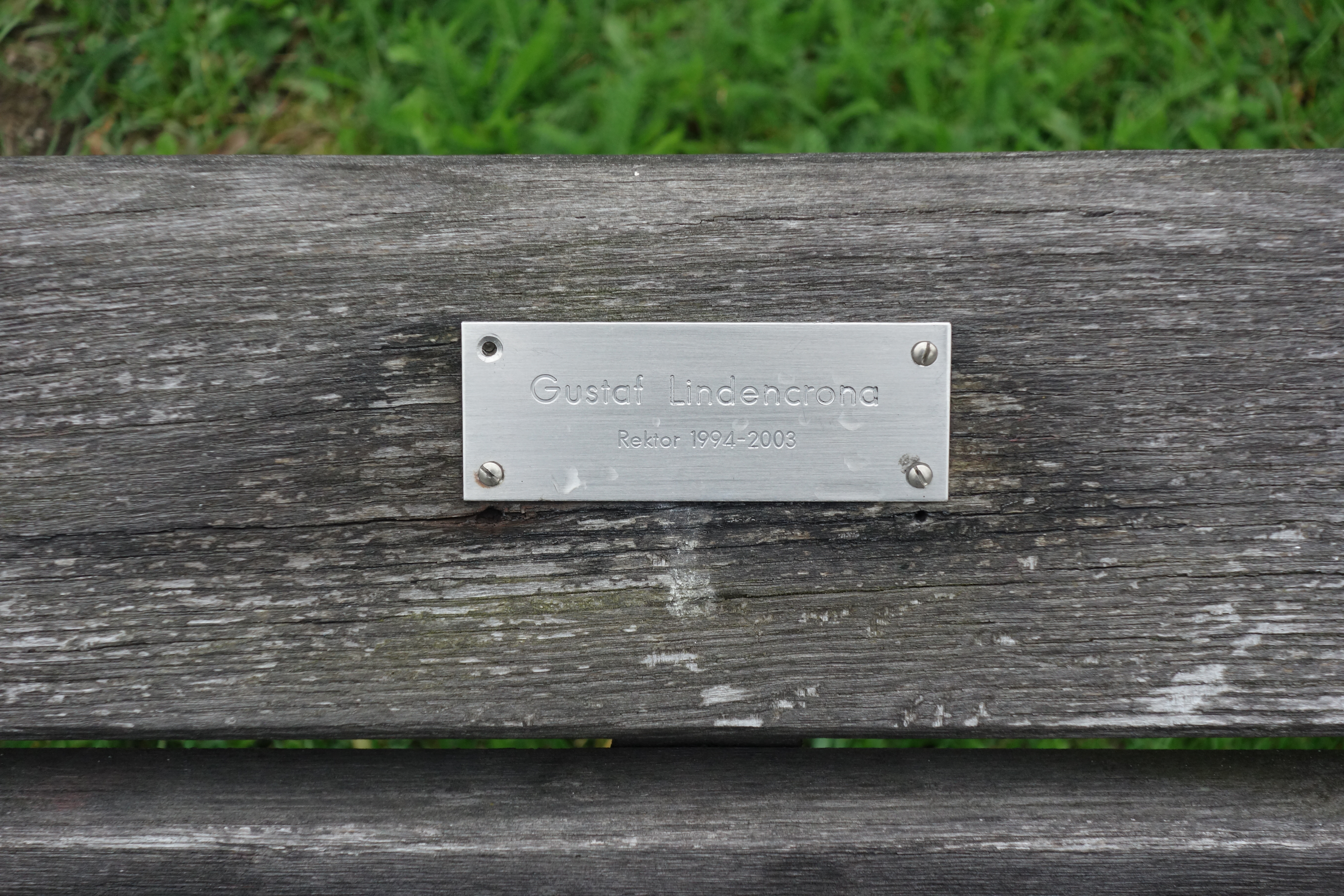 Bench with name of Gustaf Lindencrona